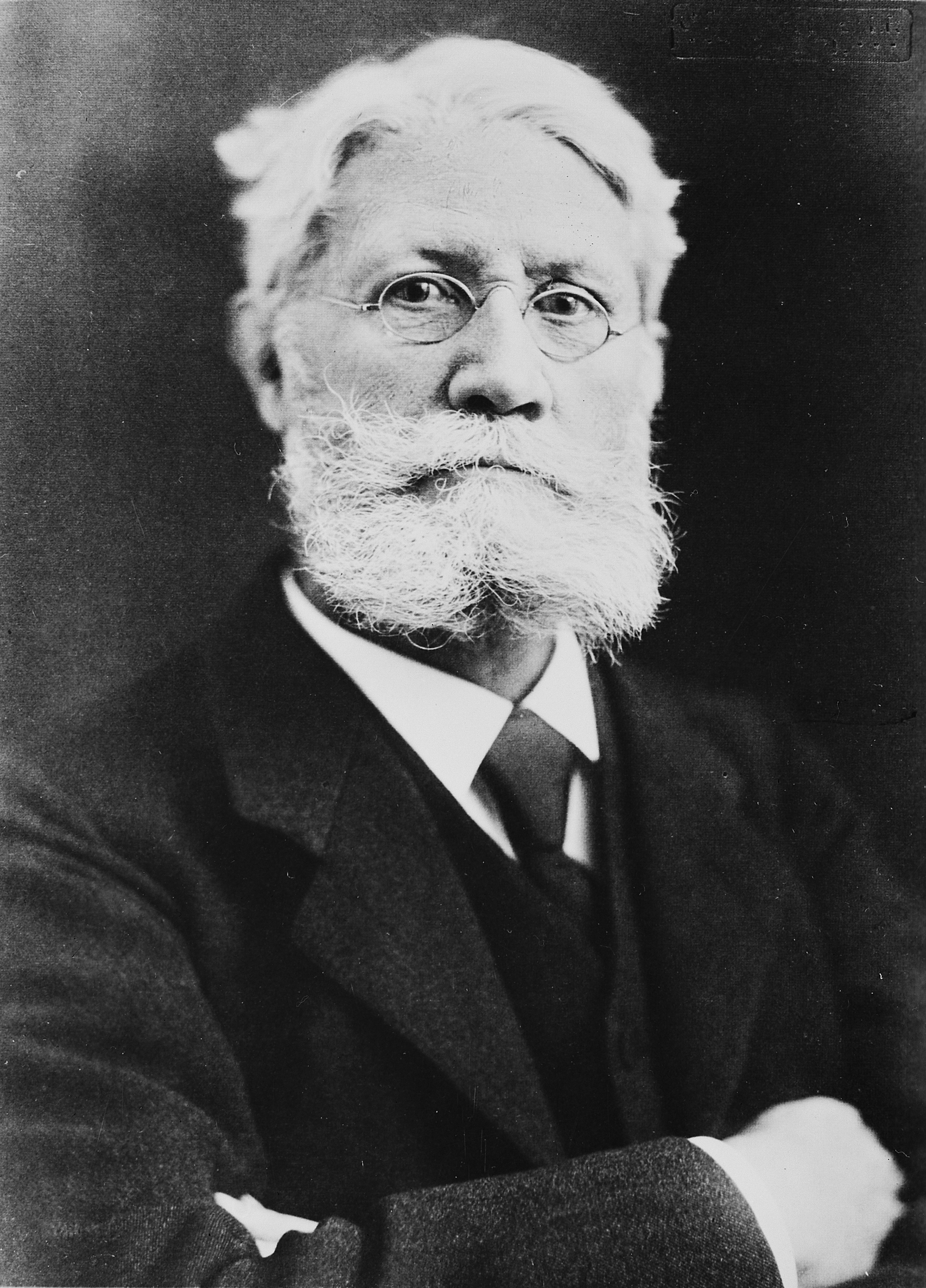 Portrait of Ludwig Courvoisier Iconographic Collections Keywords: Ludwig Courvoisier